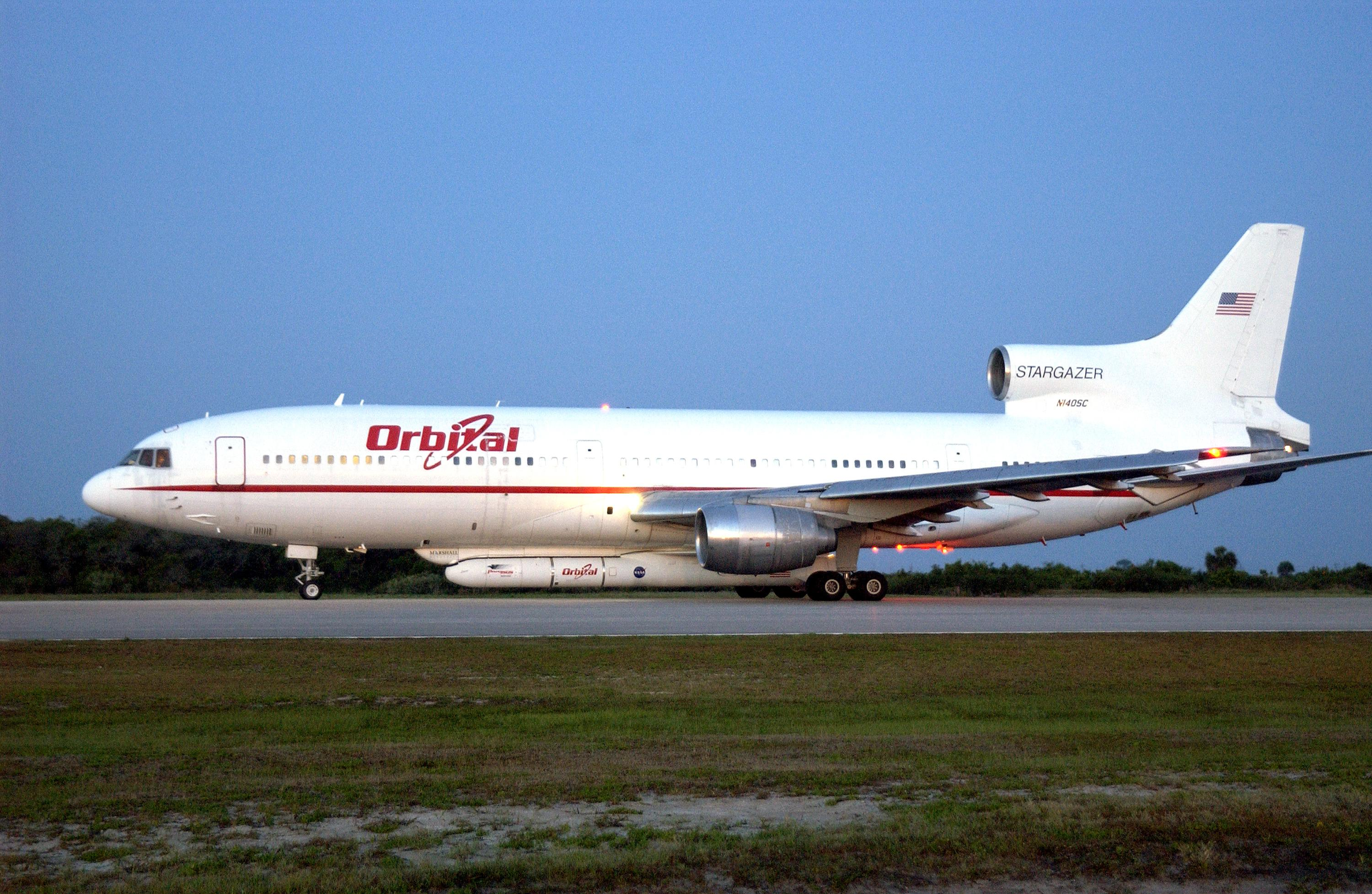 At Cape Canaveral Air Force Station, Orbital Sciences' L-1011 aircraft waits for takeoff time between 7:50 and 9:50 a.m. EDT. Attached underneath is the Pegasus XL rocket with its payload, the Galaxy Evolution Explorer (GALEX), due to be released about 8 a.m. The GALEX will carry into space an orbiting telescope that will observe a million galaxies across 10 billion years of cosmic history to help astronomers determine when the stars and elements we see today had their origins. The spacecraft will sweep the skies for 28 months using state-of-the-art ultraviolet detectors to single out galaxies dominated by young, hot, short-lived stars that give off a great deal of energy at that wavelength. These galaxies are actively creating stars, and therefore provide a window into the history and causes of star formation in galaxies.